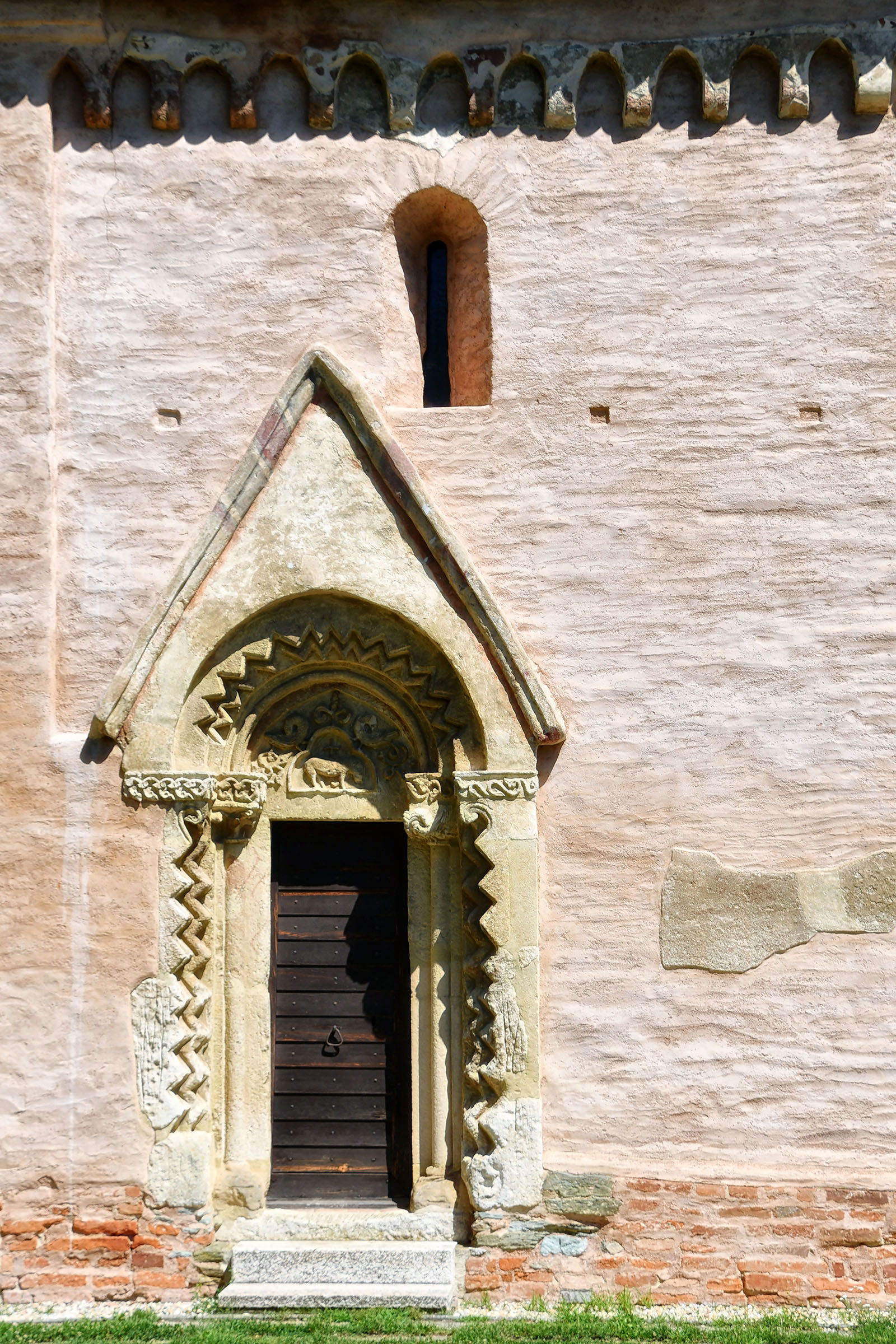 The St. Michael's Church in Csempeszkopács, Hungary